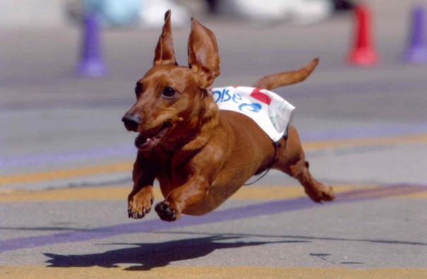 A short haired dachshund in organized race.